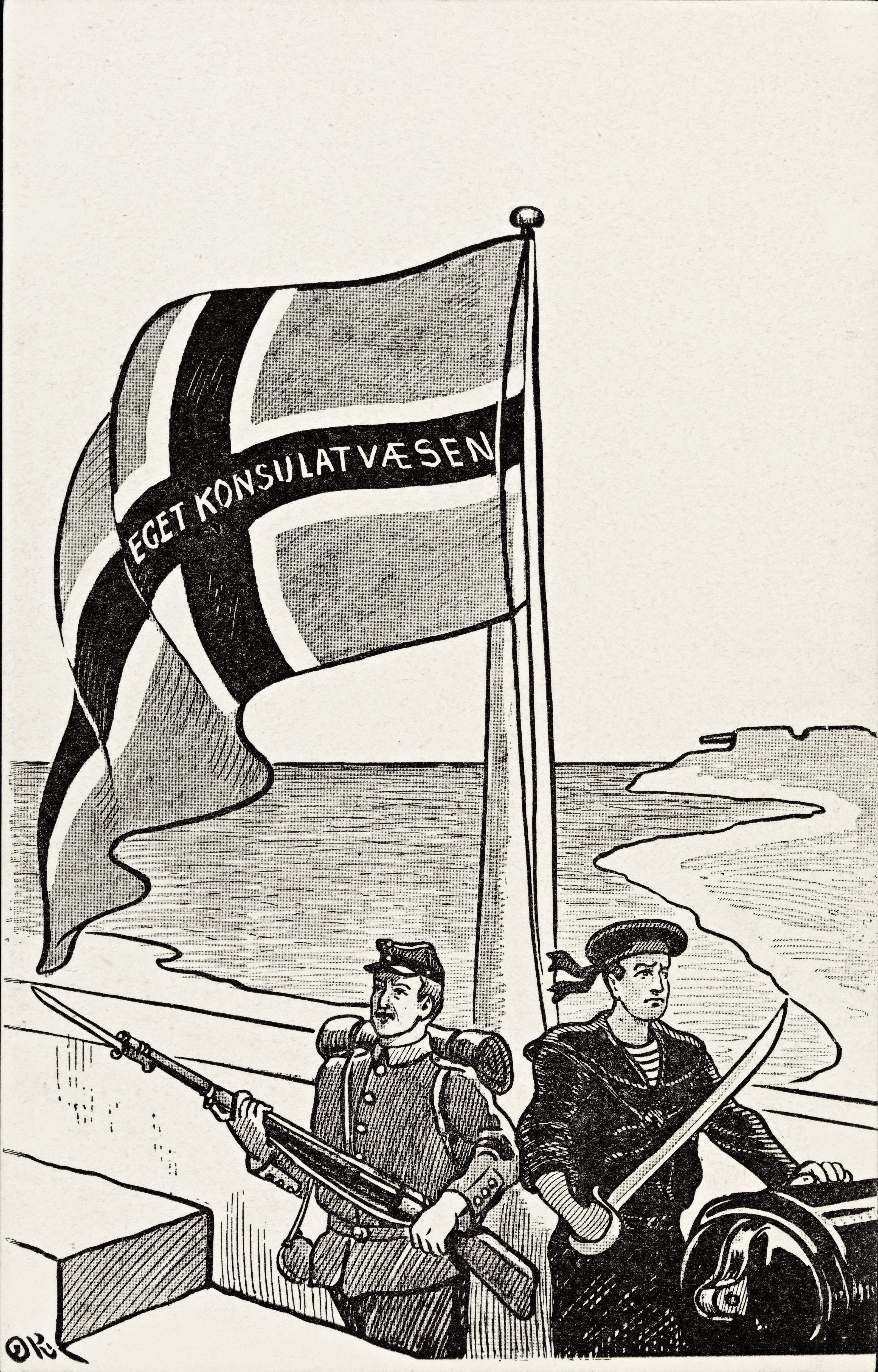 Beskrivelse / Description: Postkort / Postcard Konsulatsaken, striden om innføringen av eget norsk konsulatvesen under unionen med Sverige; den saken som ble den formelle årsaken til unionsoppløsningen 1905 (kilde: snl.no). Dato / Date: 1904 Kunstner / Artist: Olaf Krohn (1863-1933) Utgiver / Publisher: ukjent / unknown Digital kopi av original / Digital copy of original: s/h postkort, trykt Eier / Owner Institution: Nasjonalbiblioteket / National Library of Norway Lenke / Link: Bildesignatur / Image Number: bldsa_PK15203